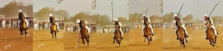 Nawab Malik Ata's unique style